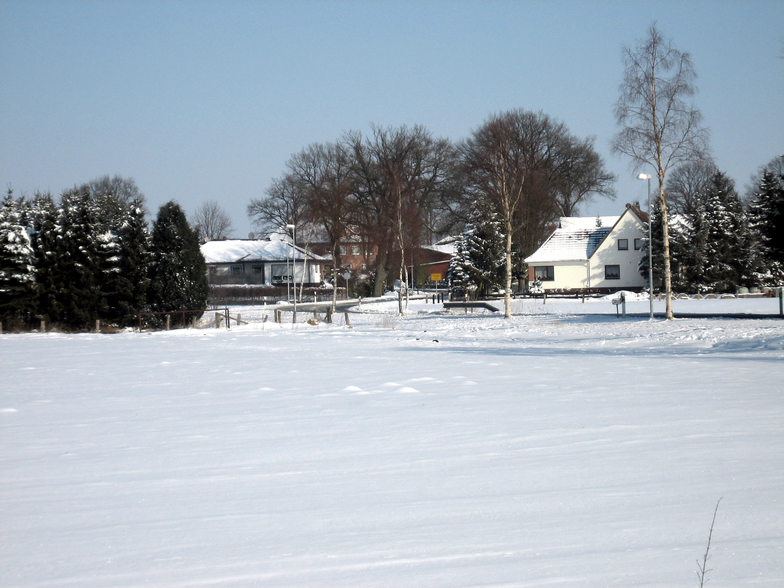 village of Vierden, Lower Saxony, Germany, approaching from the east